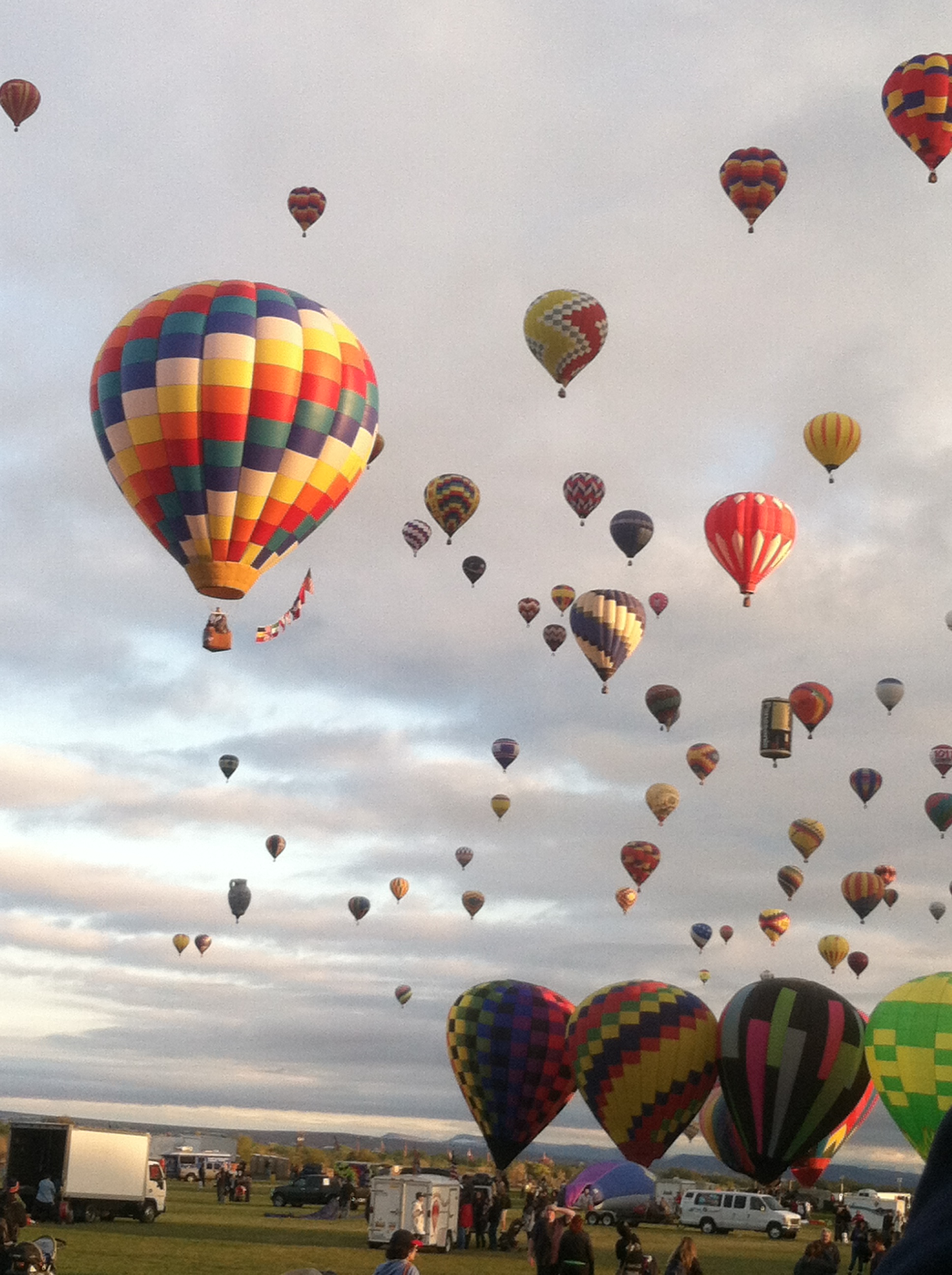 Hot air balloons flying high over New Mexico in October